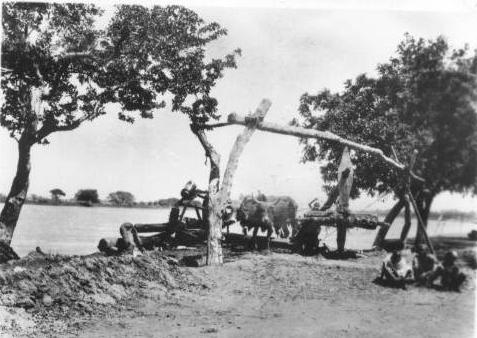 The River Nile - an irrigation device from time immemorial - known as the Persian Wheel. This device was used from the Middle East to China.